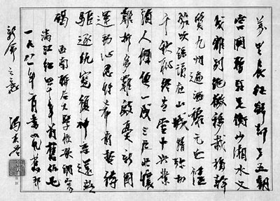 Feng Youlan writed the song of National Southwestern Associated University, in about 1939.